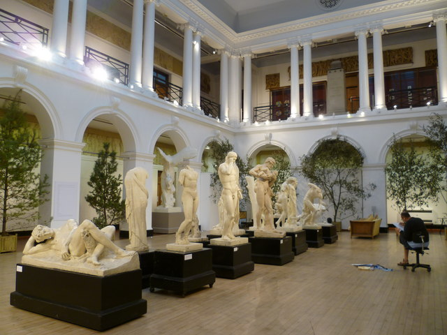 Sculpture Court statues, Edinburgh College Of Art